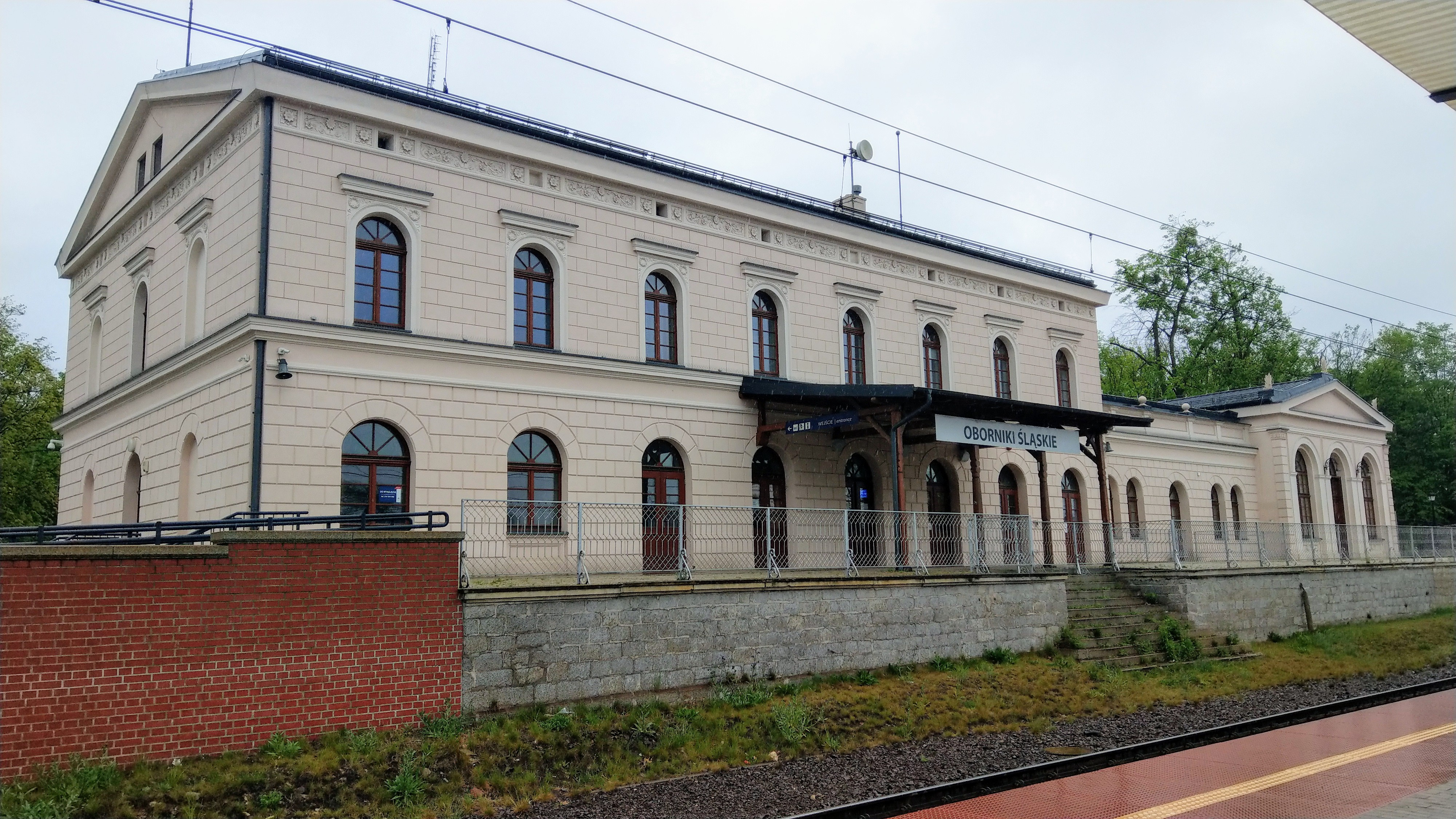 Oborniki Śląskie, Poland. Train station outside.